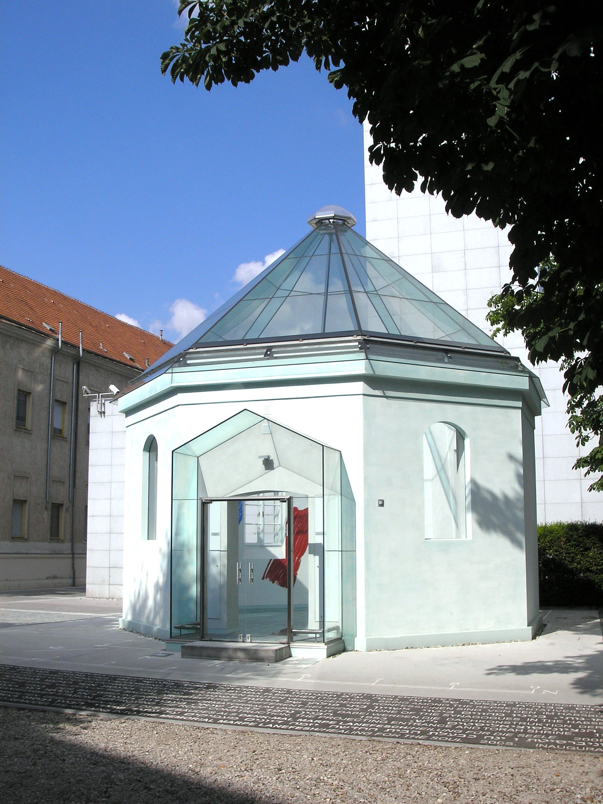 Detailed view of the synagogue in the Allgemeines Krankenhaus Wien. Constructed by Max Fleischer in 1903, devastated by the Nazis in 1938, renovated in 2005.